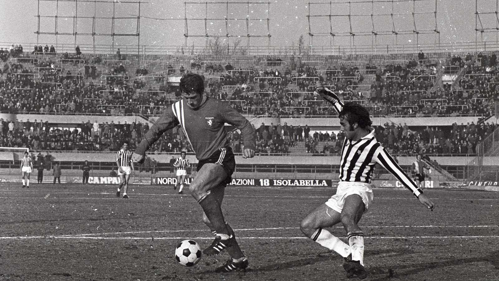 Turin (Italy), Communal Stadium, January 27, 1971. Juventus F.C. — F.C. Twente 2-0, 1970–71 Inter-Cities Fairs Cup quarter-finals, 1st leg; from left to right: Twente's defender Willem de Vries and Juventus' forward Pietro Anastasi.